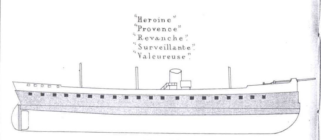 The 10 ironclads of the Provence class had a full armour belt (grey).